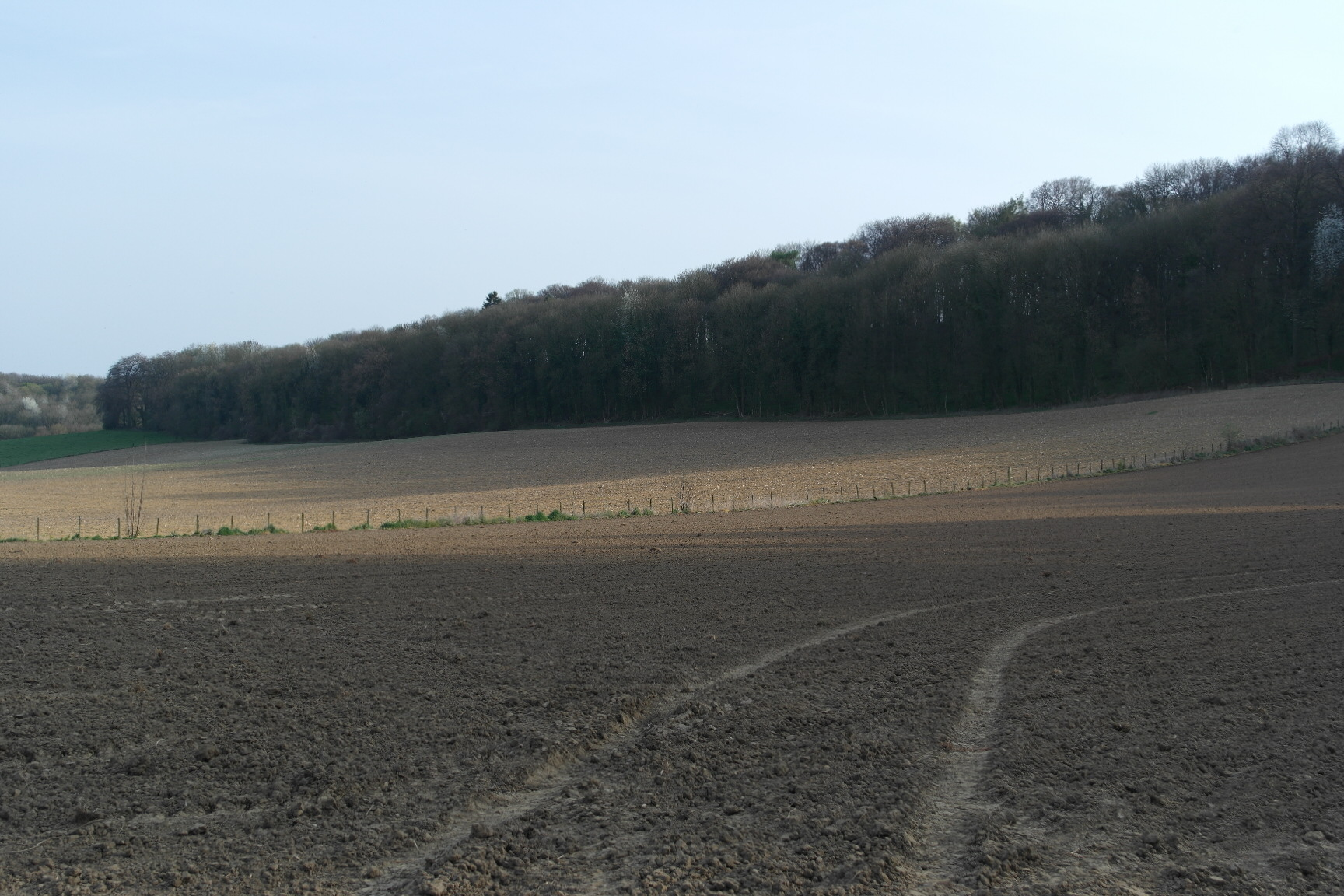 Valkenburg, Limburg, the Netherlands. View of Biebosch from Oud-Valkenburgerweg.